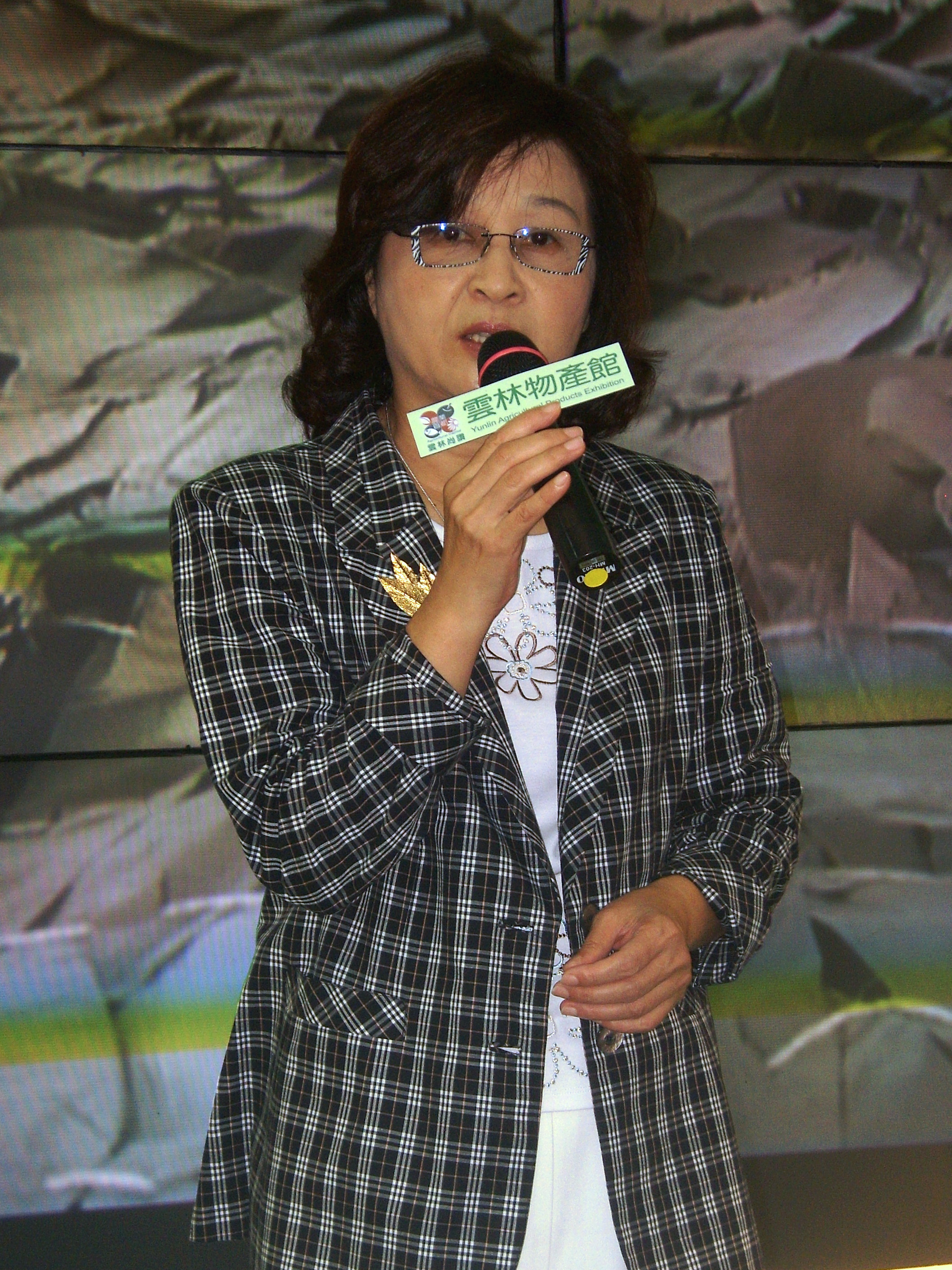 2008 Food Taipei: Chih-fen Su, Magistrate of Yunlin County.